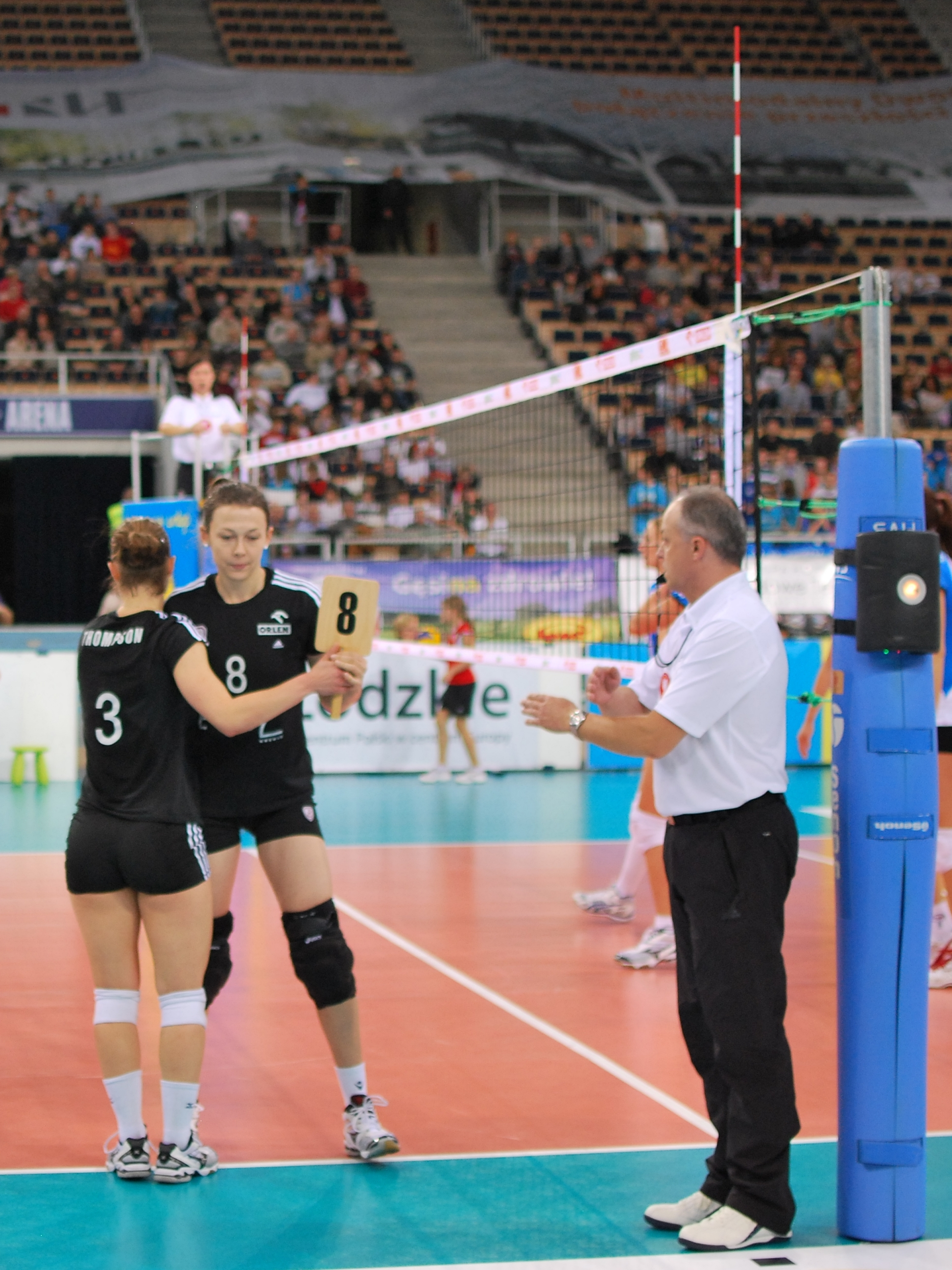 Replace in volleyball